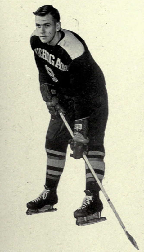 Photograph of Gil Burford, captain of the NCAA champion 1950–51 Michigan Wolverines men's ice hockey team This work is in the public domain because it was published in the United States between 1923 and 1963 and although there may or may not have been a copyright notice, the copyright was not renewed. Unless its author has been dead for the required period, it is copyrighted in the countries or areas that do not apply the rule of the shorter term for US works, such as Canada (50 pma), Mainland China (50 pma, not Hong Kong or Macao), Germany (70 pma), Mexico (100 pma), Switzerland (70 pma), and other countries with individual treaties. See Commons:Hirtle chart for further explanation. This work is in the public domain in the United States because it was published in the United States between 1923 and 1977 without a copyright notice. See Commons:Hirtle chart for further explanation. Note that it may still be copyrighted in jurisdictions that do not apply the rule of the shorter term for US works (depending on the date of the author's death), such as Canada (50 p.m.a.), Mainland China (50 p.m.a., not Hong Kong or Macao), Germany (70 p.m.a.), Mexico (100 p.m.a.), Switzerland (70 p.m.a.), and other countries with individual treaties.